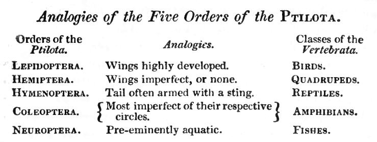 Quinarian classification and analogies between pterygota (Ptilota) and vertebrates